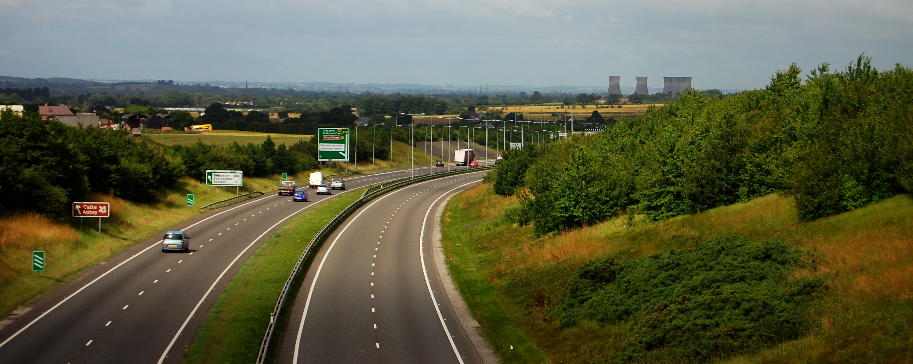 The A50 near Chellaston, with the Willington Cooling towers in the distance - this photo might not be any good but I feel it sums up my geographic location - an edge of city suburban village.